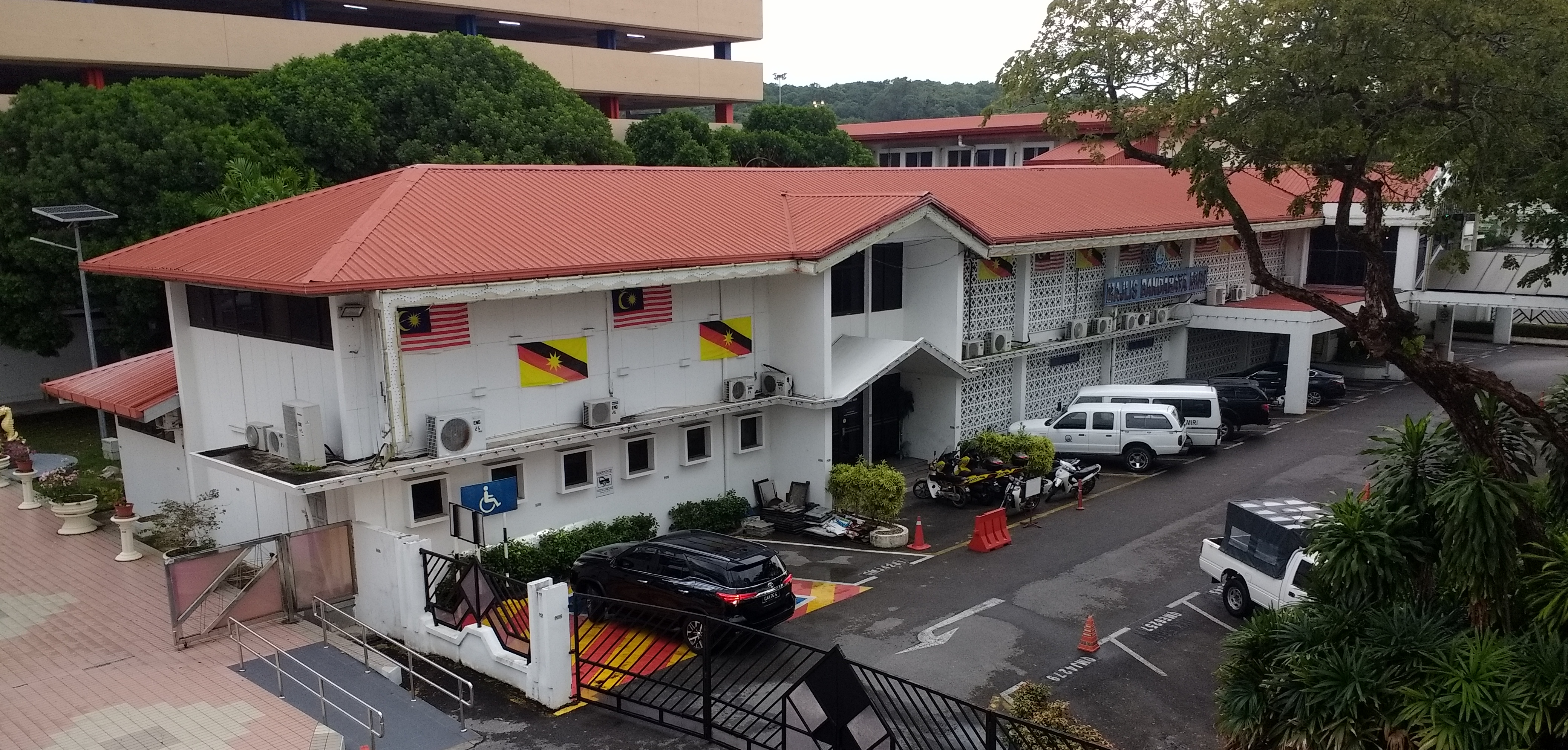 The Miri City Council (Majlis Bandaraya Miri) building in Miri, Sarawak, Malaysia.